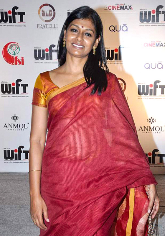 Nandita Das at the screening of Gattu in 2012